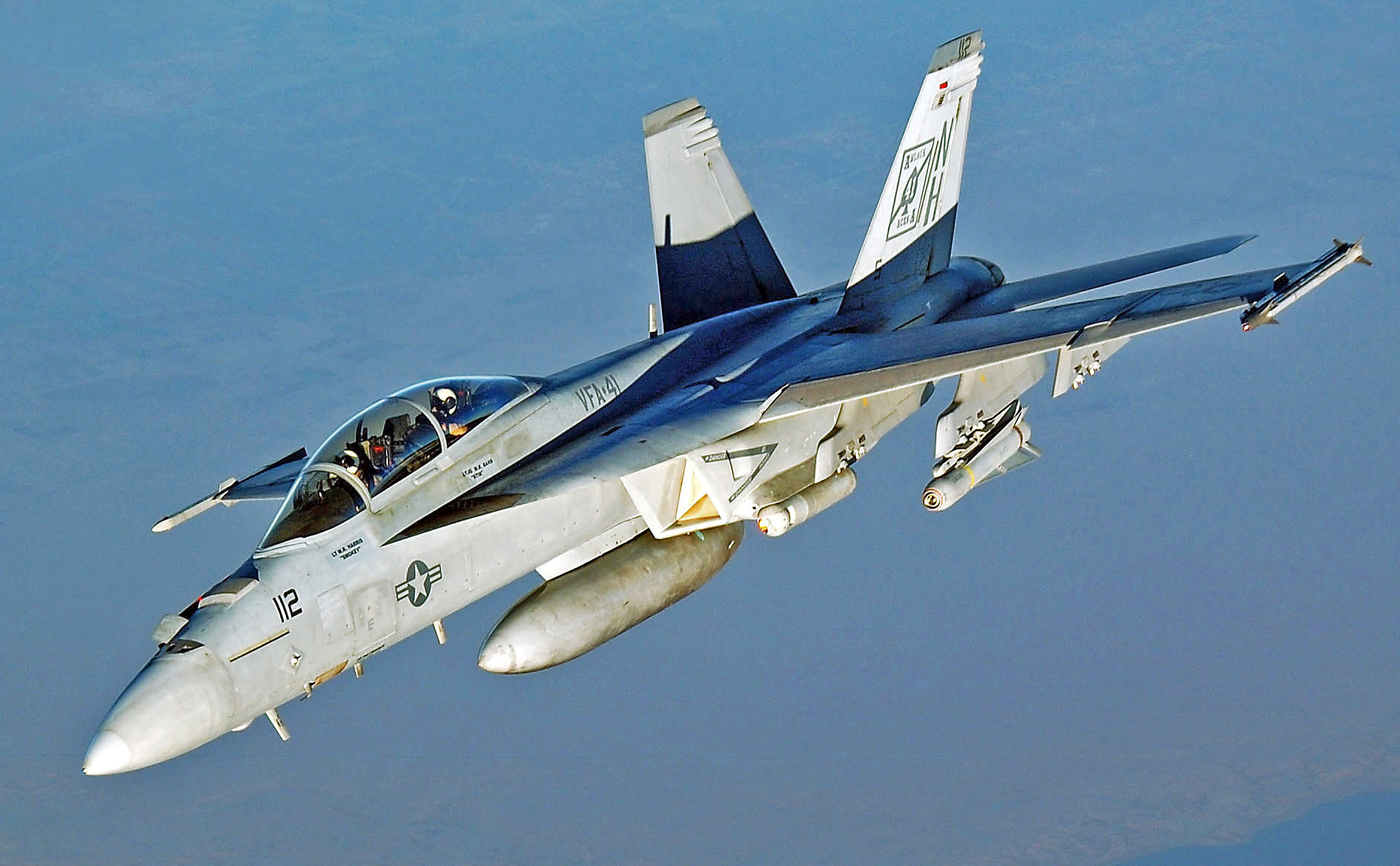 A US Navy (USN) F/A-18F Super Hornet, Strike Fighter Squadron 41 (VFA-41), Black Aces, Naval Air Station (NAS) Lemoore, California (CA), conducts a mission over the Persian Gulf. The Hornet is armed with an AIM-9 Sidewinder missile on the wingtip and an AGM-65 Maverick missile on the pylon. Tucked under the intake is an AN/ASQ-228 ATFLIR (Advanced Targeting Forward Looking InfraRed) pod. Also under the fuselage, a 370-gallon External Fuel Tank. The VFA-41 is currently embarked aboard the USN Aircraft Carrier USS NIMITZ (CVN 68). The Nimitz Carrier Strike Group (CSG) is currently on a regularly scheduled deployment in support of the Global War on Terrorism (GWOT).